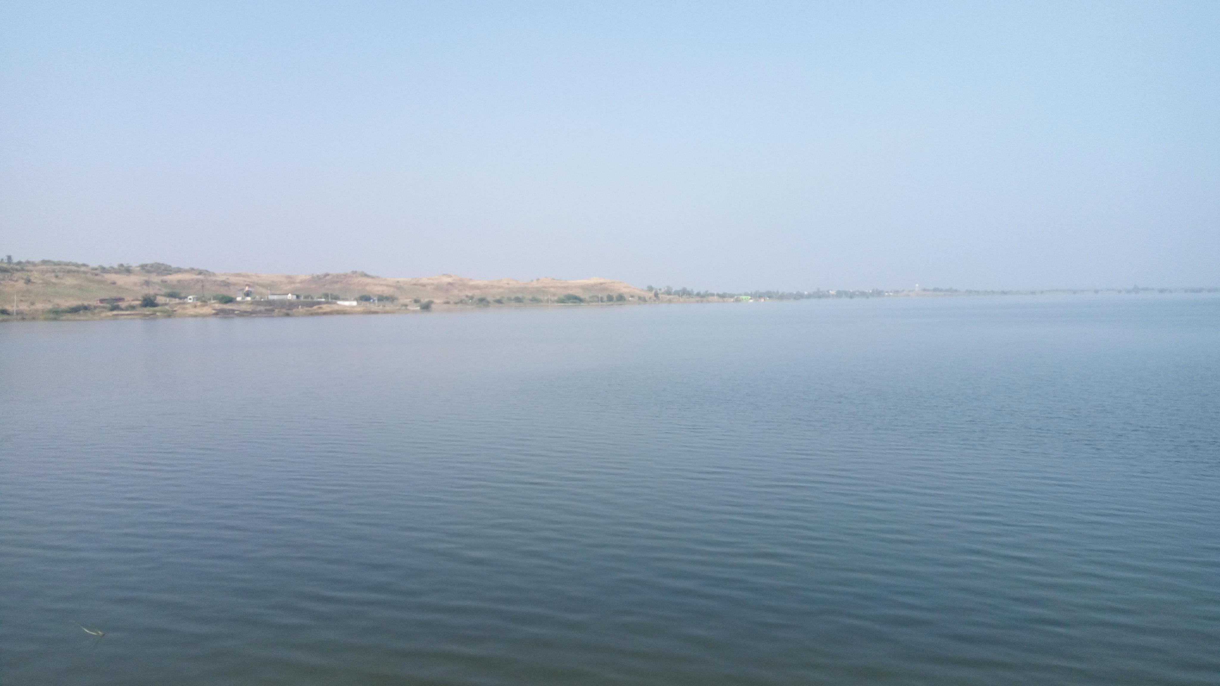 Veer Dam 2